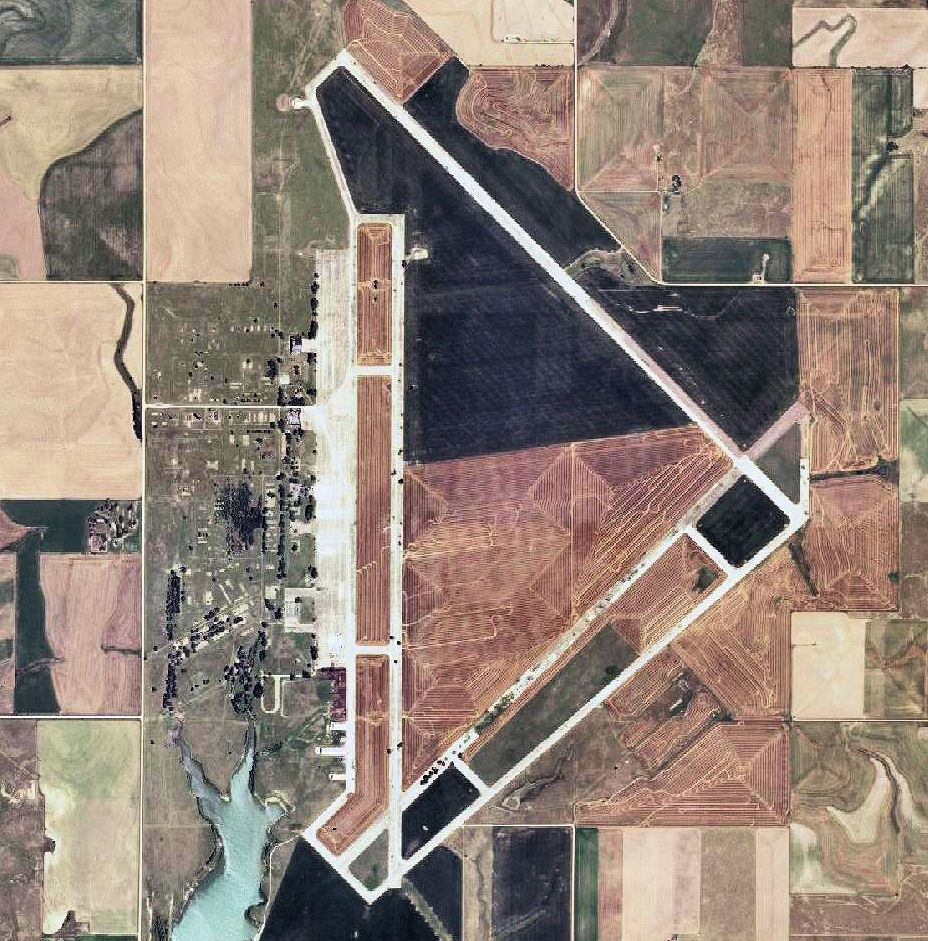 USGS digital orthophoto of Walker Army Airfield in Kansas